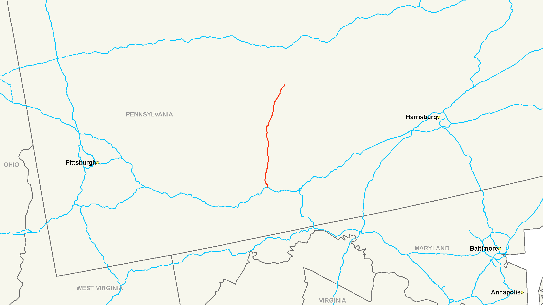 Map of Interstate 99